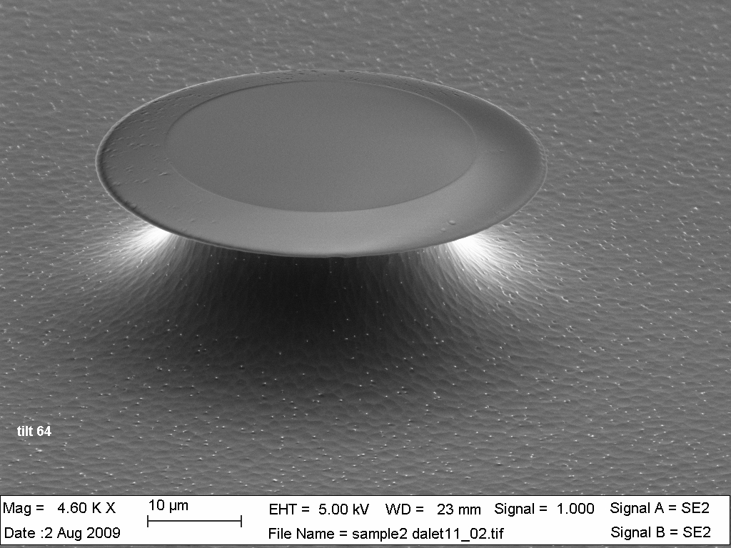 It's a SEM picture of a microdisk resonator, about 40 um diameter, in order to create a toroid there needs to be a CO2 reflow. Later it can be used as an optical whispering gallery modes resonator.